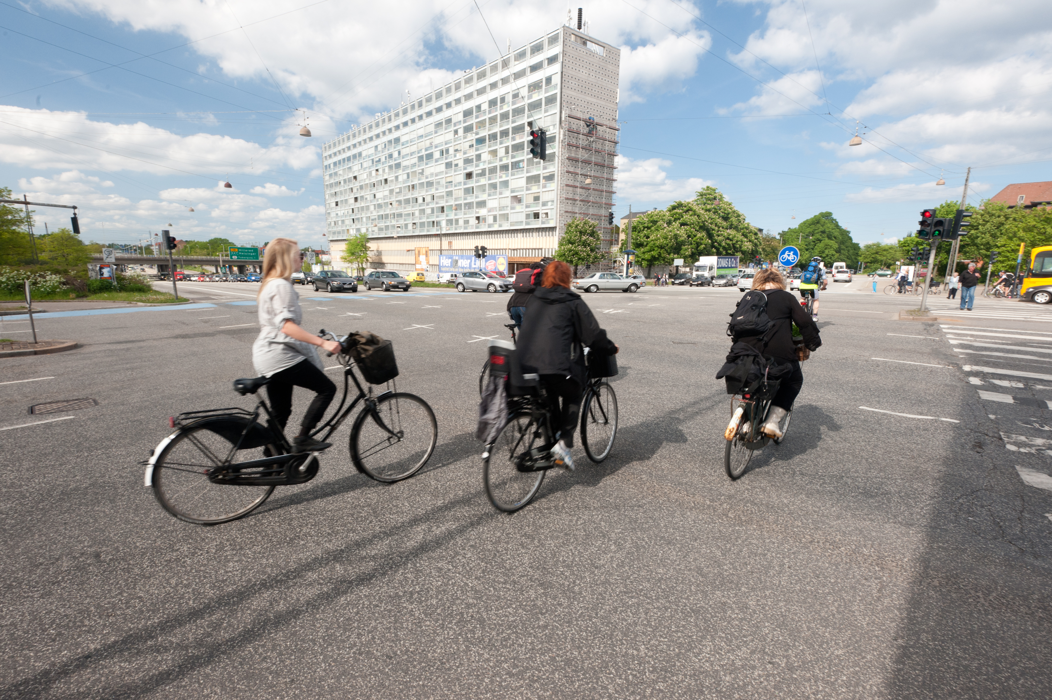 Hans Knudsens Plads (Hans Knudsen's Square in Copenhagen, Denmark.Photo is taken from south western corner, showing the Helsingør Motorway at left, Ryparken Station just left of the tall building and Lyngbyvej to the rightmost.